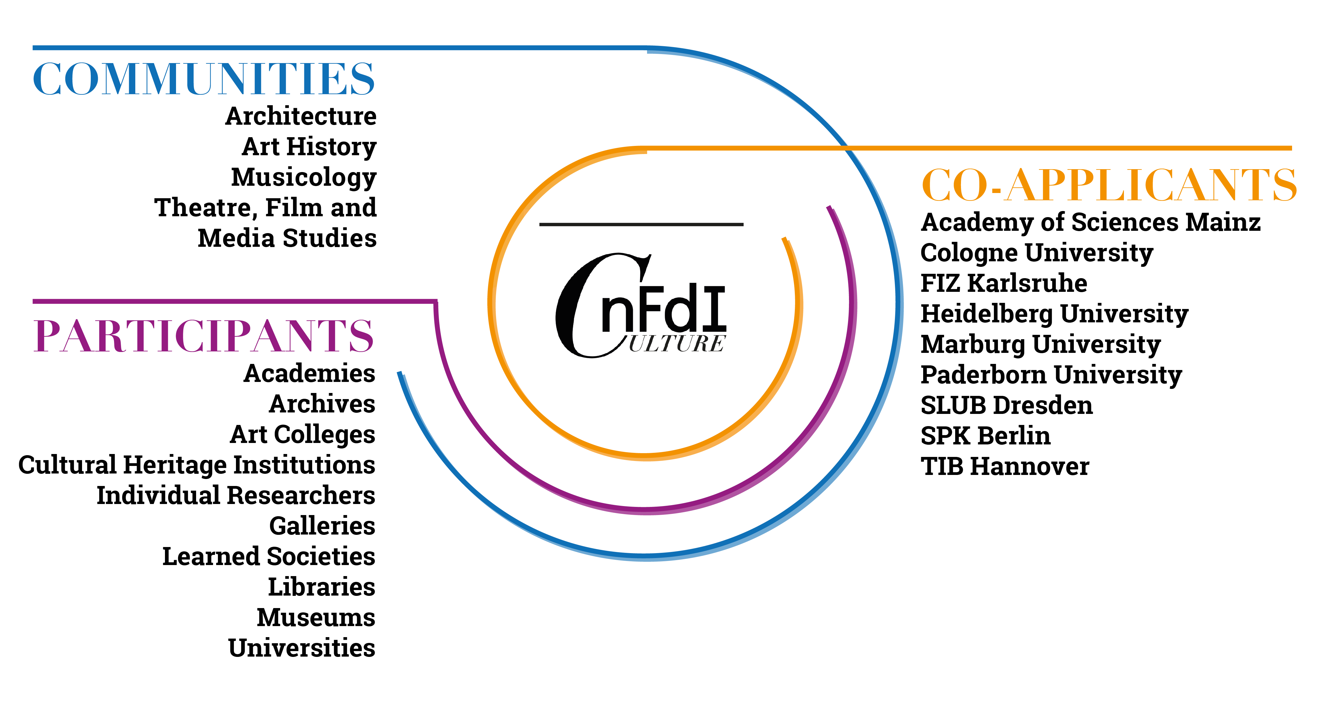 Communities, Co-Applicants and Participants of NFDI4Culture